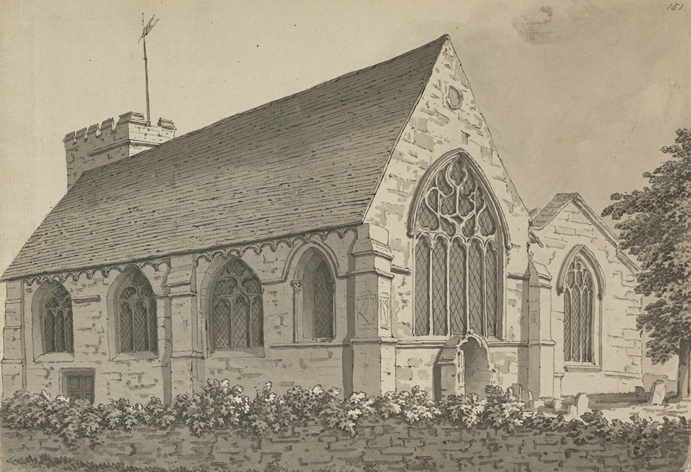 View of St Benedict's Church, Lincoln by Samuel Hieronymous Grimm, 1784